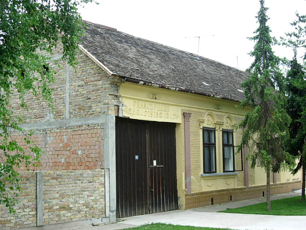 Old house in Čelarevo.